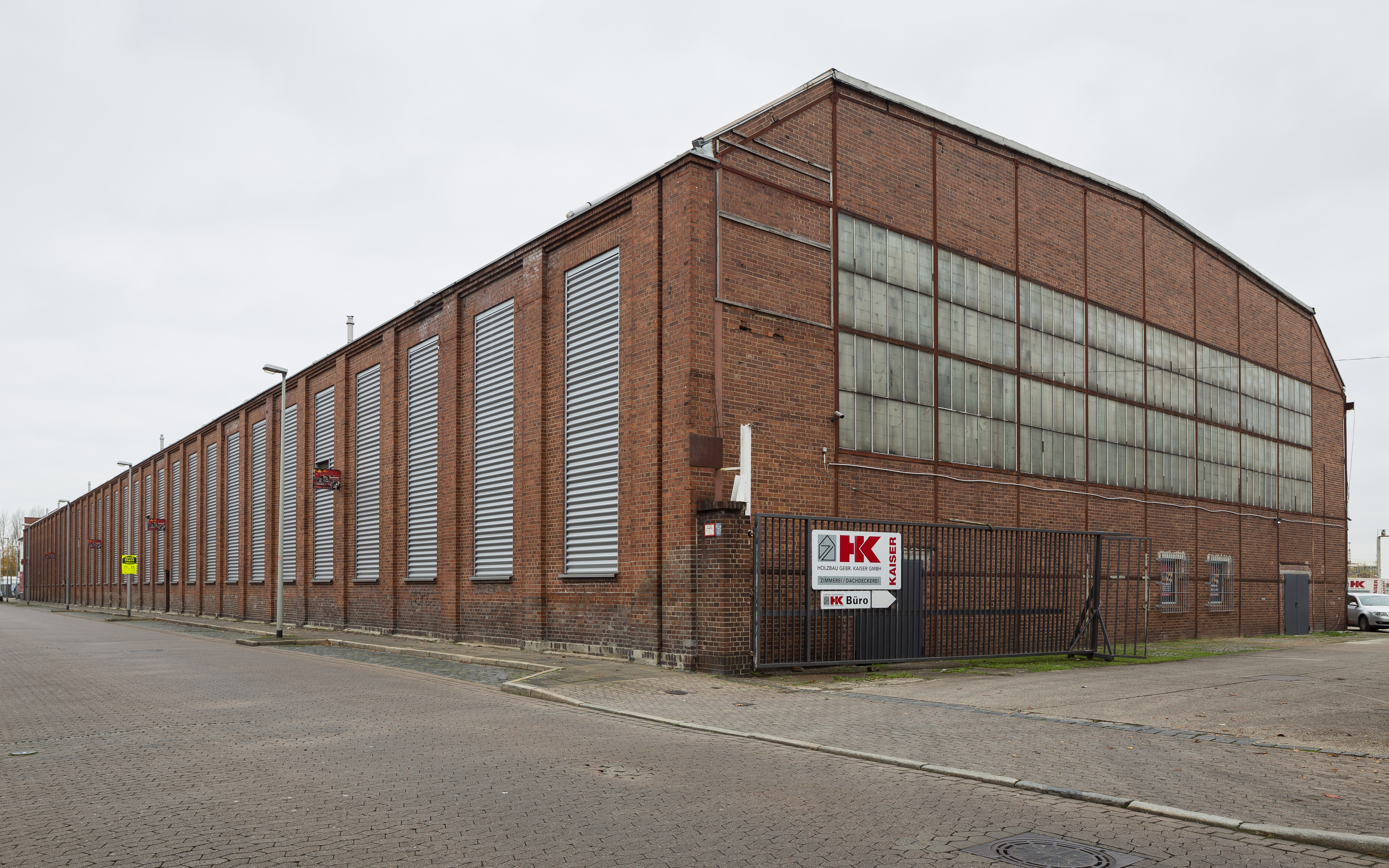 Former factory hall of former railroad car factory "HAWA" located at Schlorumpfsweg in Ricklingen district of Hanover, Germany.